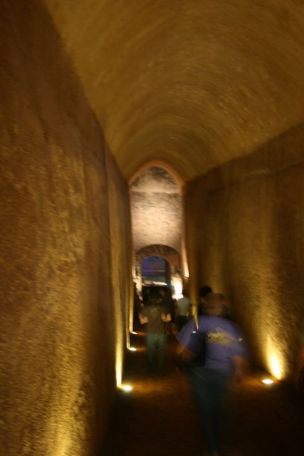 A narrow vaulted corridor leading to the coffin chamber of Emperor Xuanwu of Northern Wei's tomb in Luoyang.